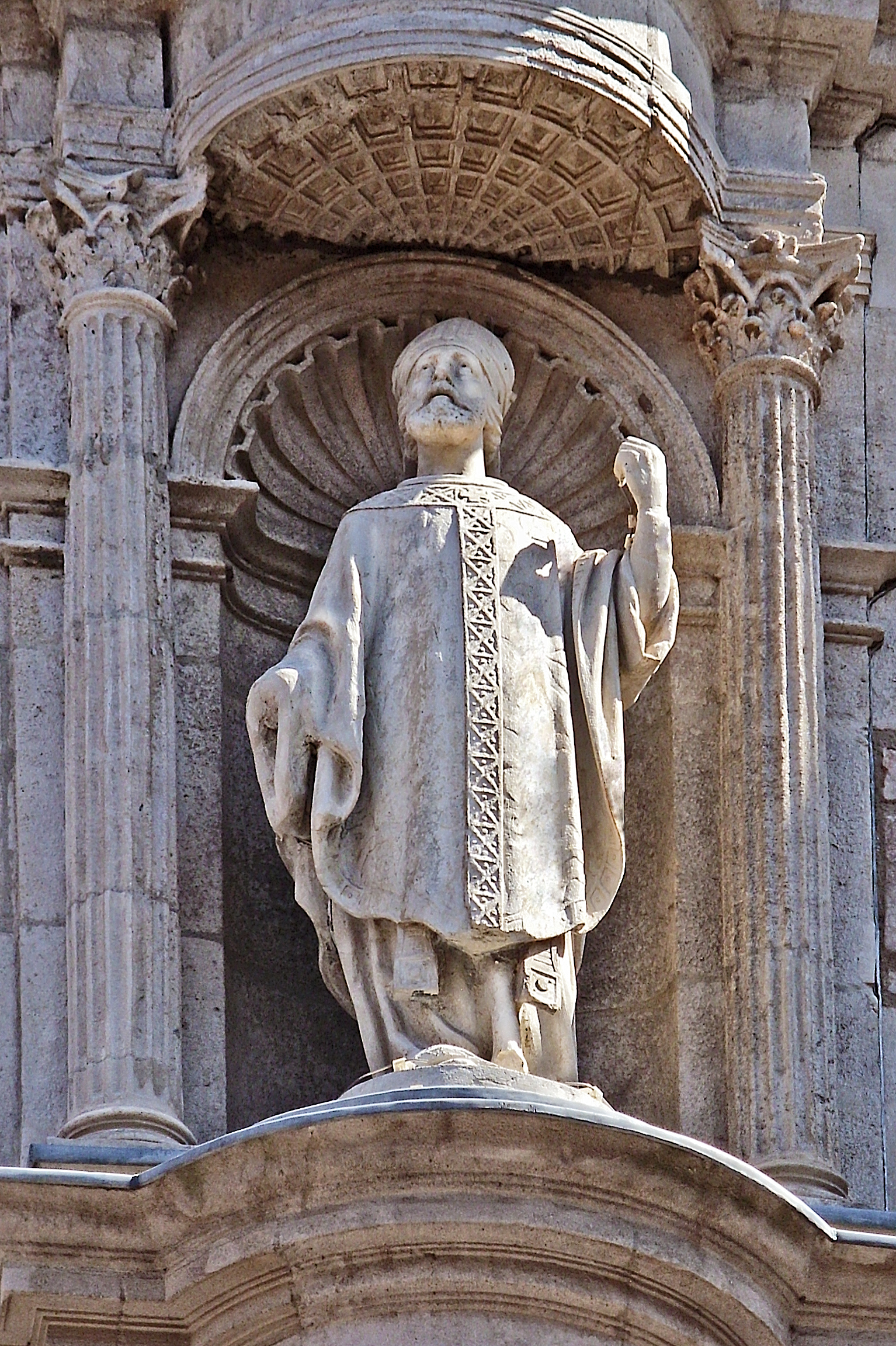 Notre-Dame de la Dalbade in Toulouse. Statue of St Germerius